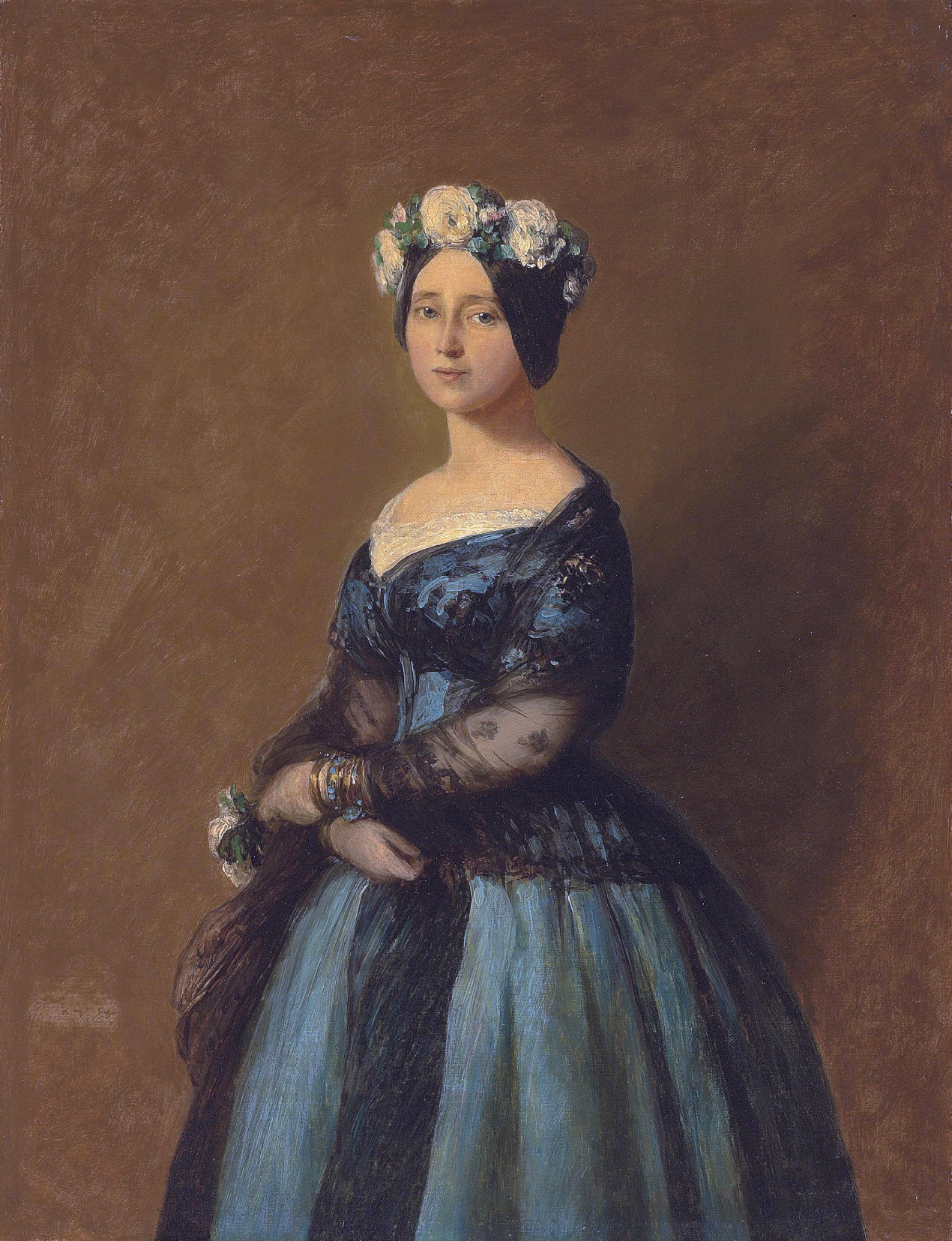 Augusta, Princess of Prussia commissioned by Queen Victoria painted at Windsor Castle The lotnotes at the source say " the marriage in 1857 between two of their children - Prince Frederick Wilhelm of Prussia, future Emperor Frederick III Wilhelm of Germany (1831-88), and Victoria, Princess Royal (1840-1901)." Therefore this is most probably Augusta of Saxe-Weimar-Eisenach, and not Princess Augusta of Prussia